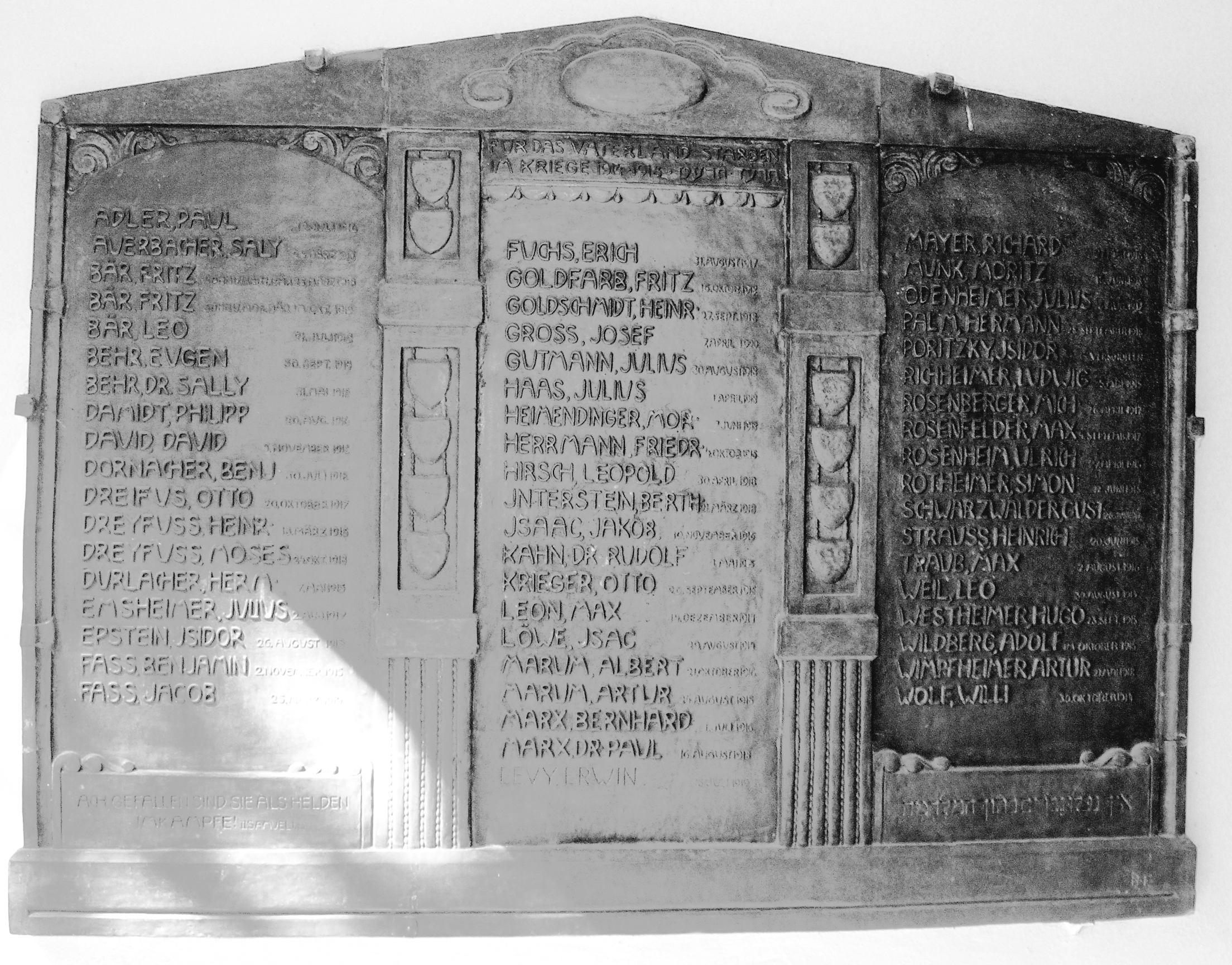 Memorial for jewish soldiers in the German army in World War I